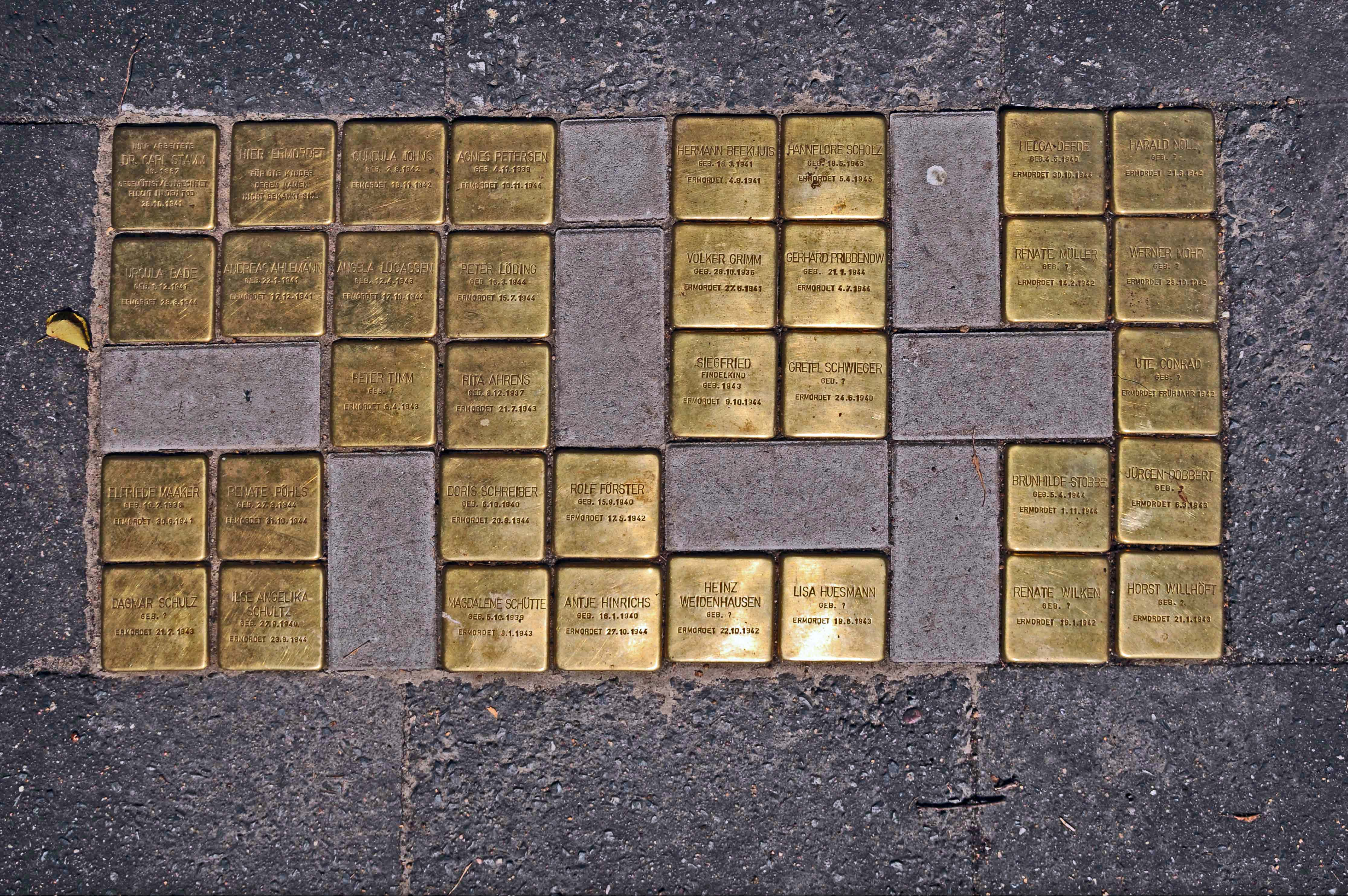 35 commemorative stolpersteine (literally, "stumbling blocks"), in memory of 56 children killed during the Nazi dictatorship because they were physically or mentally handicapped